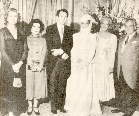 Wedding of King Fouad II of Egypt in 1977